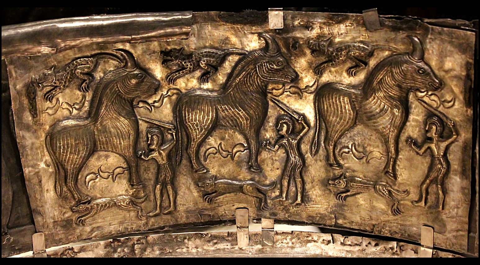 Gundestrup cauldron, interior plate 5. Copy by galvanoplasty, museum of Bibracte, exhibition at the Cité des Sciences, Paris ("Les Gaulois, une expo renversante").